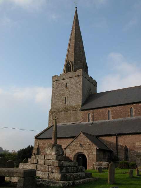 Trellech church The church is dedicated to St Nicholas.